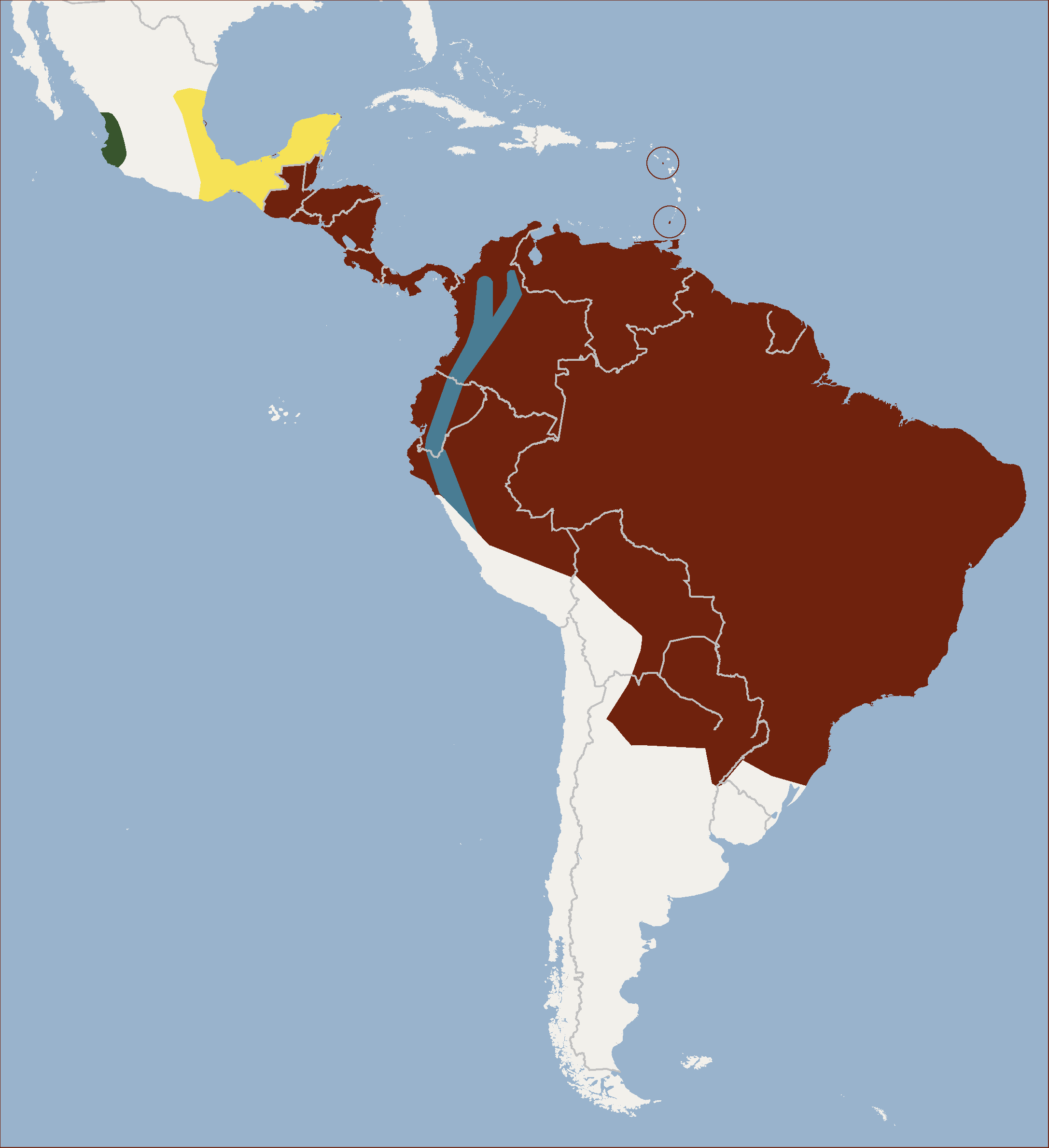 Geographical distribution of Myotis nigricans according to maps.